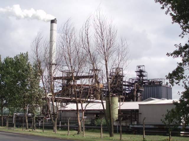 Sevalco Ltd, Severn Road, Chittening. This is Sevalco Ltd(owned by Colombian Chemicals Company)manufacturing plant. The plant produces carbon black (used in rubber, plastic, ink among other things). In 2004 Sevalco were fined £310,000 for releasing 17x the acceptable amount of cyanide into the Severn estuary.